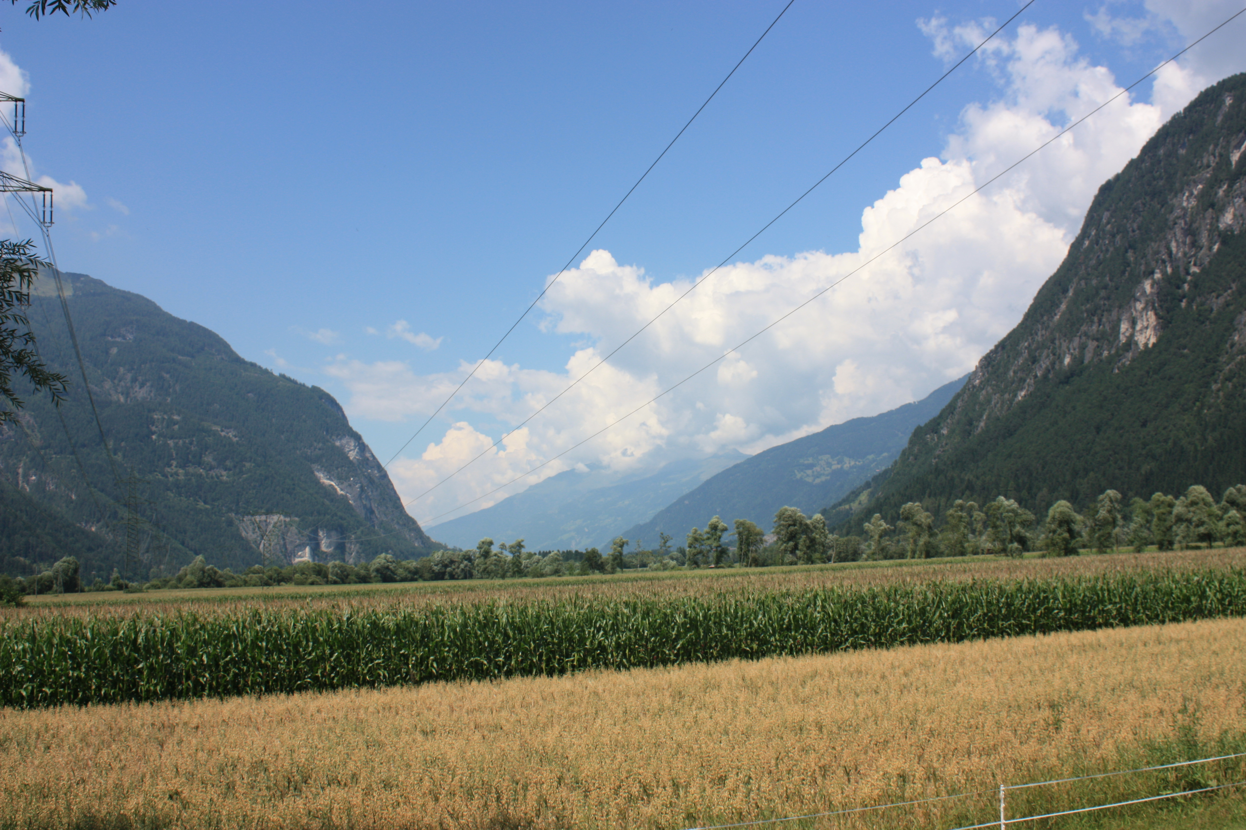 Kärntnertor: between Carinthia and Osttirol